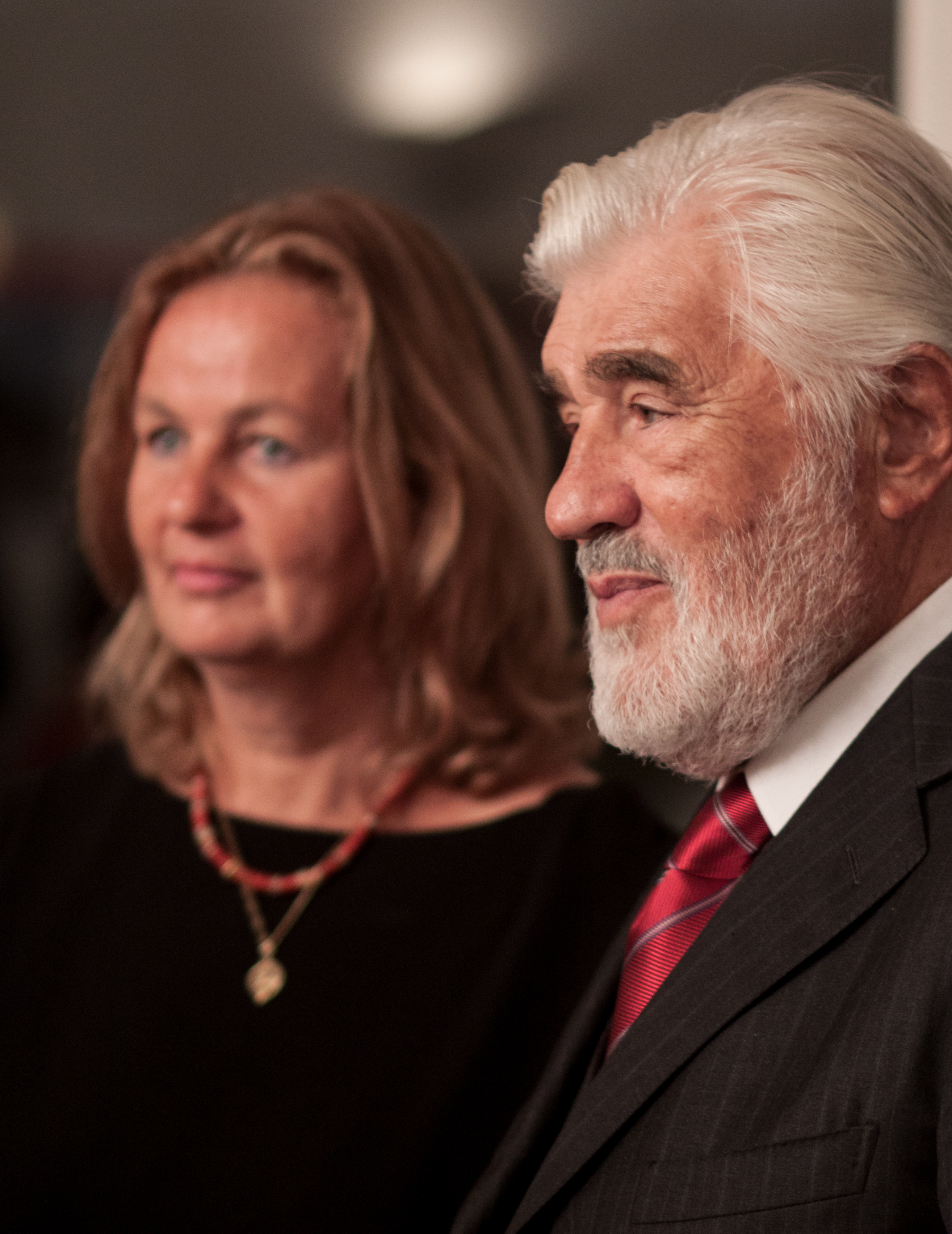 German actor Mario Adorf with Sabine Erlenwein at the reception following the 2012 Berlin and Beyond Film Festival, October 29. German Consulate General, Jackson Street, San Francisco. 82 year old Adorf brought his newest film, "The Rhino & the Dragonfly," to San Francisco and received a career honor.